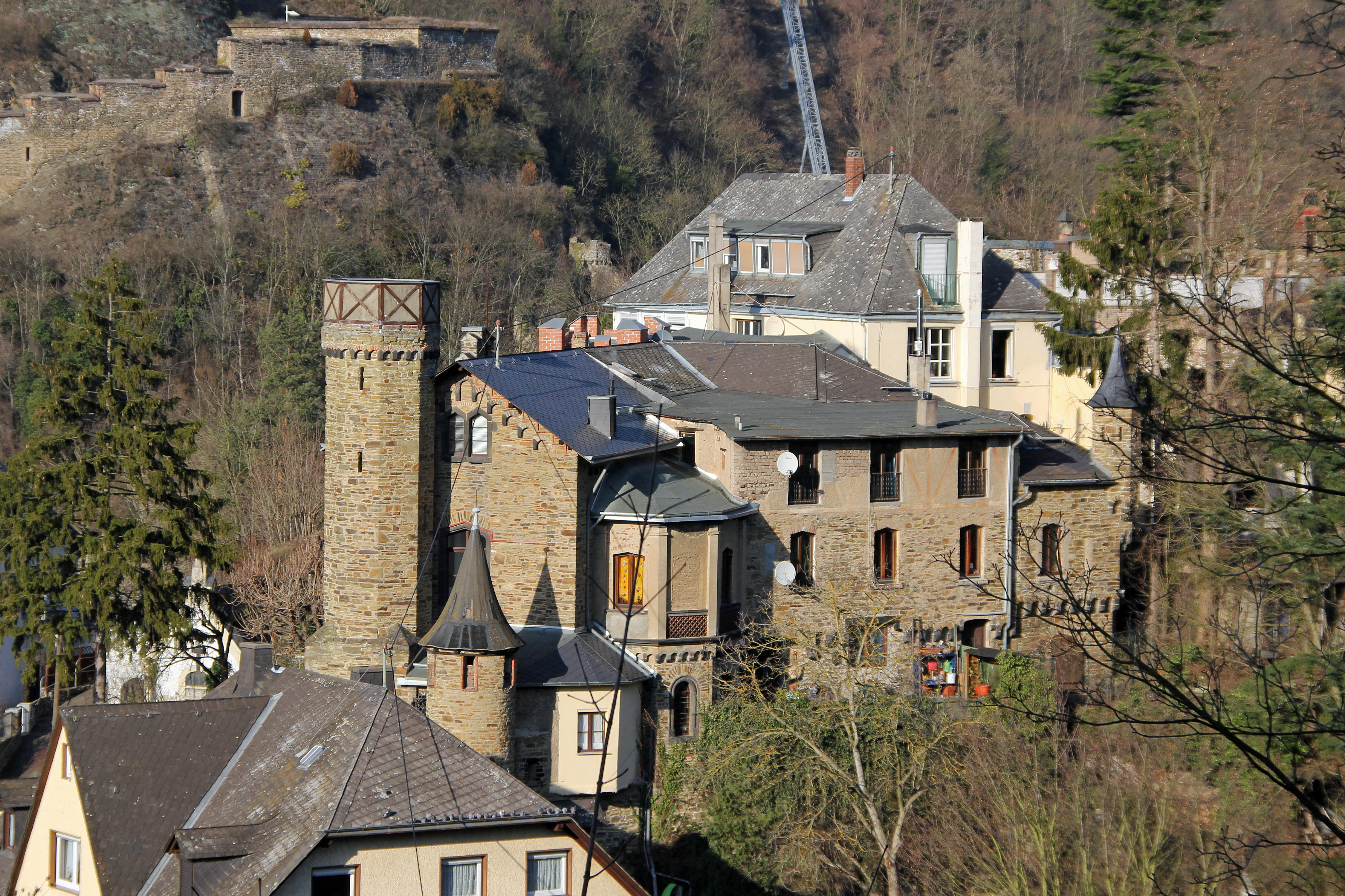 Klausenburg in Koblenz-Ehrenbreitstein